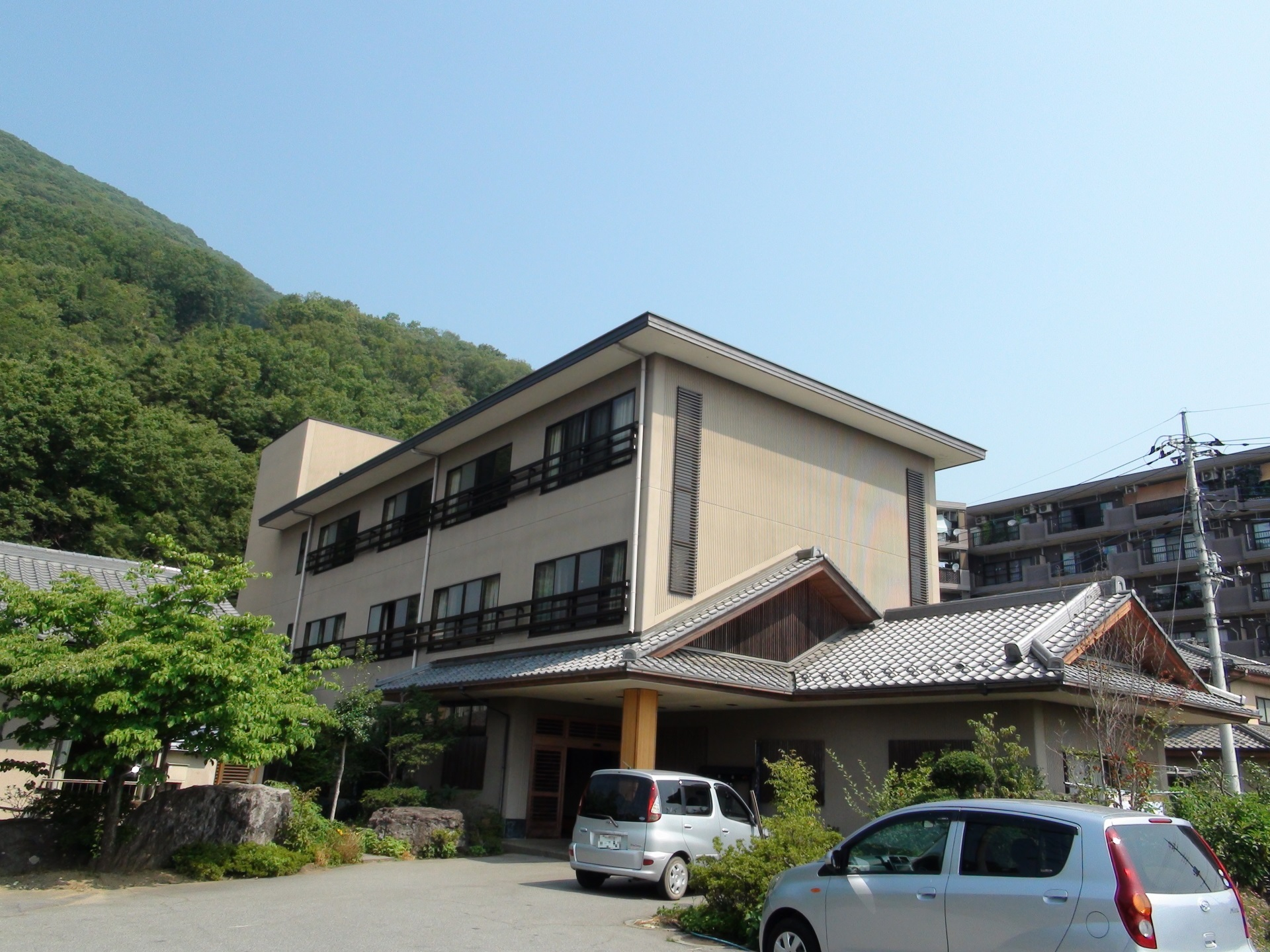 Hinode Kasugai Yamanashi Hot spring